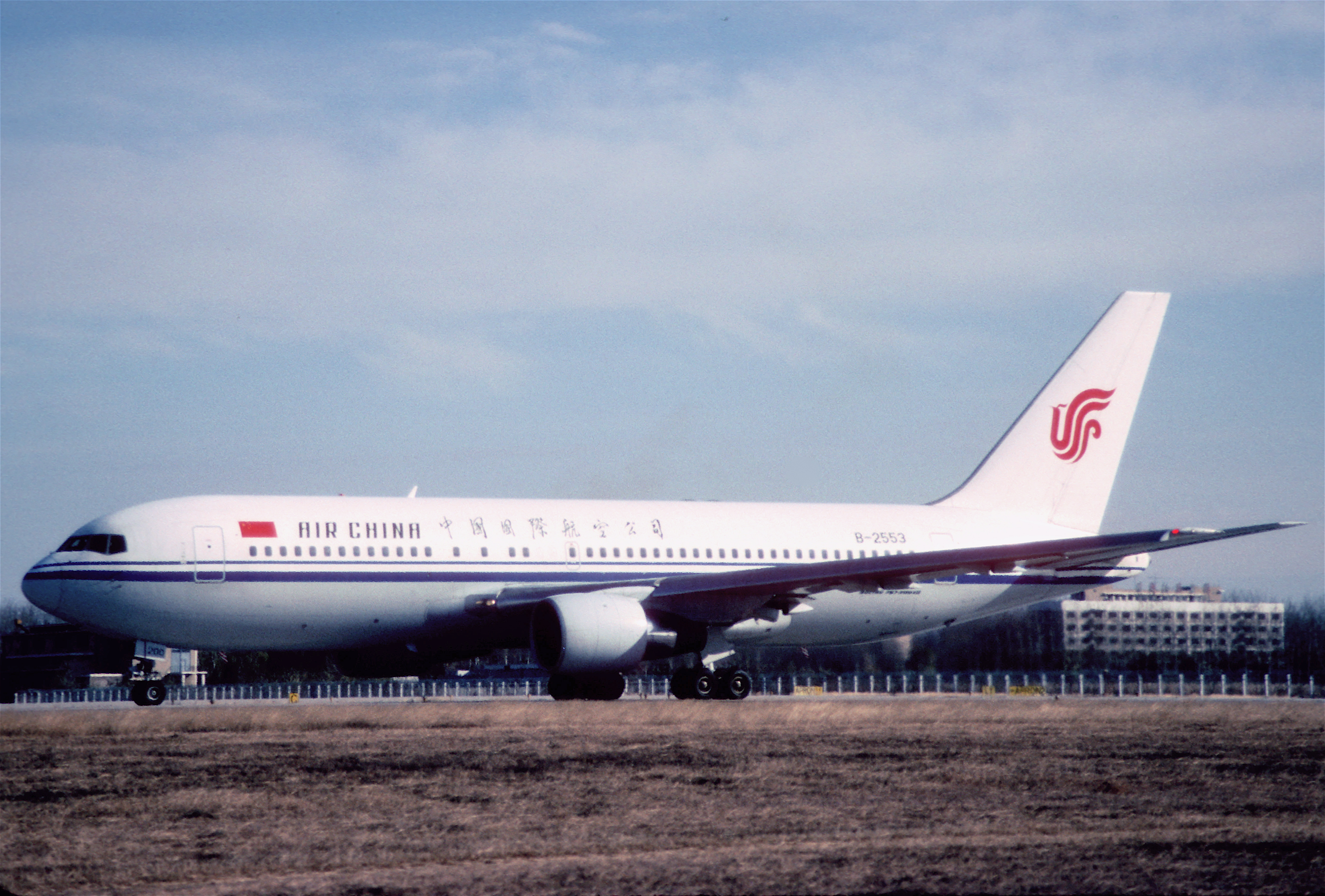 This aircraft was damaged beyond repair after nose gear collapsed on 1 July 2007 at Beijing Capital Int'l Airport.